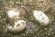 Eggs of the Brown tree snake (Boiga irregularis), with a dime for scale